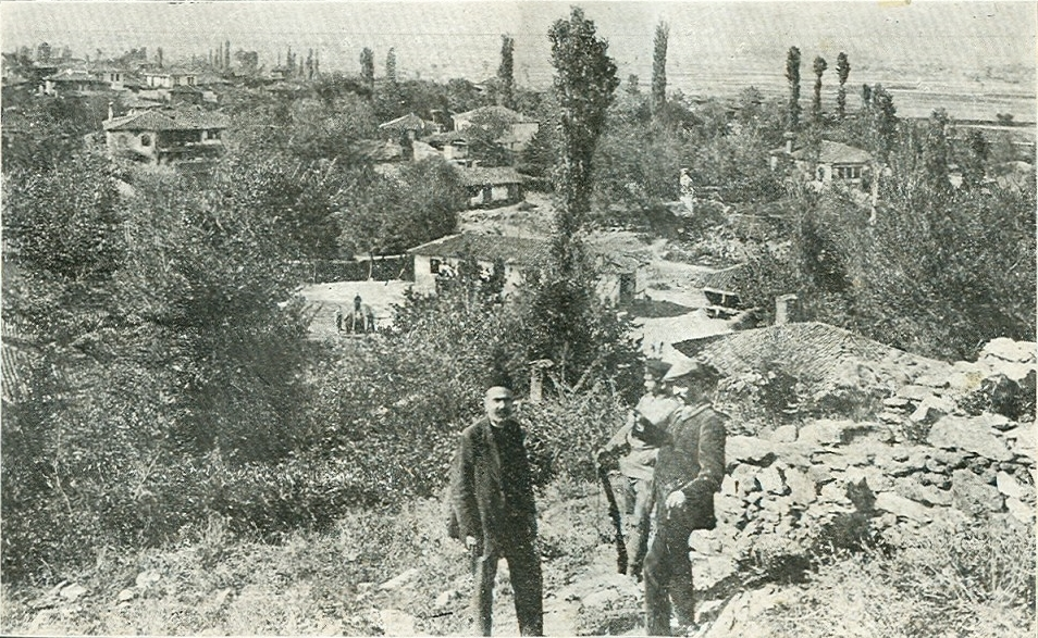 Vinica in the begining of XX c.